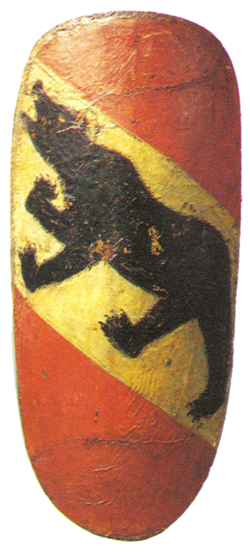 14th century siege shield with the oldest known coloured depiction of the Bernese arms.